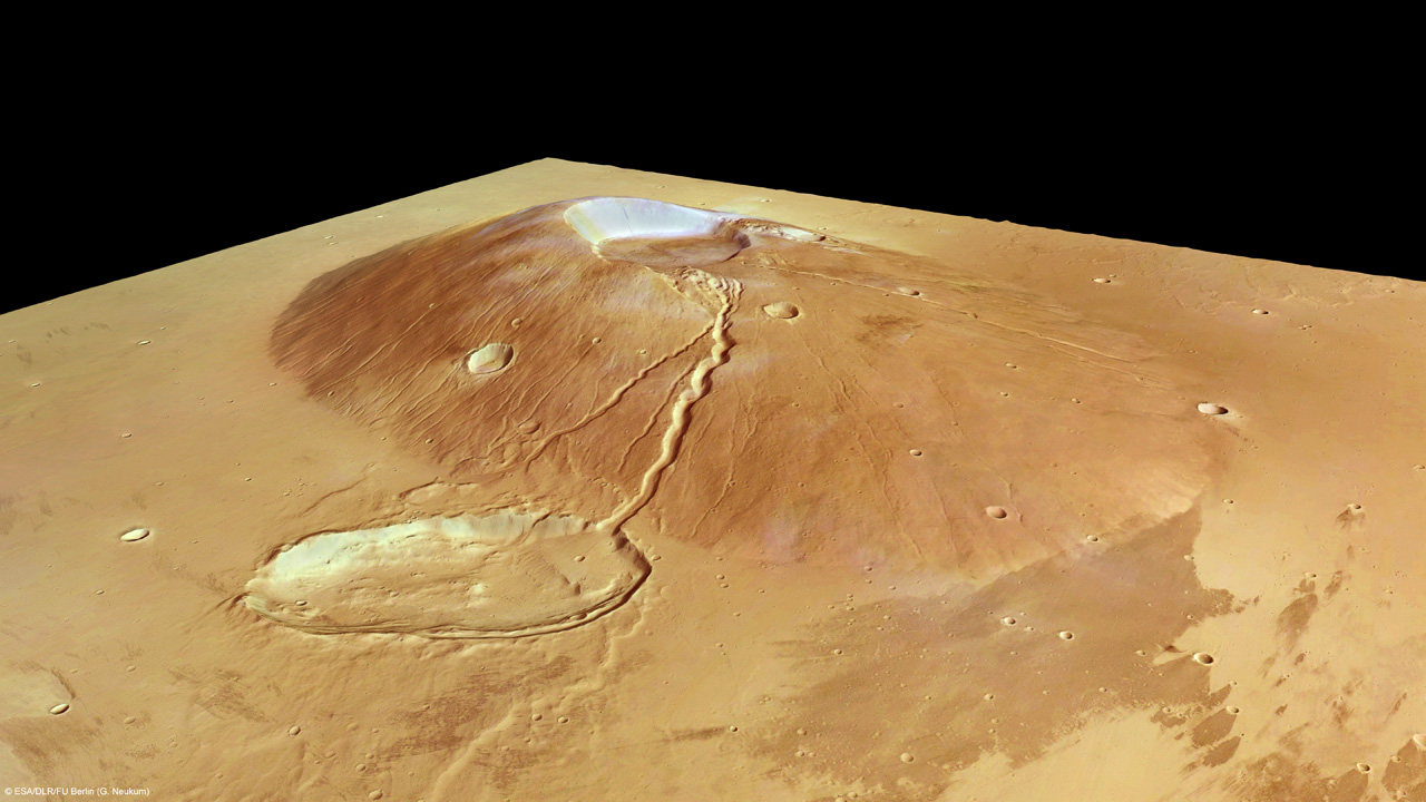 Computer-generated perspective view of Ceraunius Tholus on Mars based on data from Mars Express.